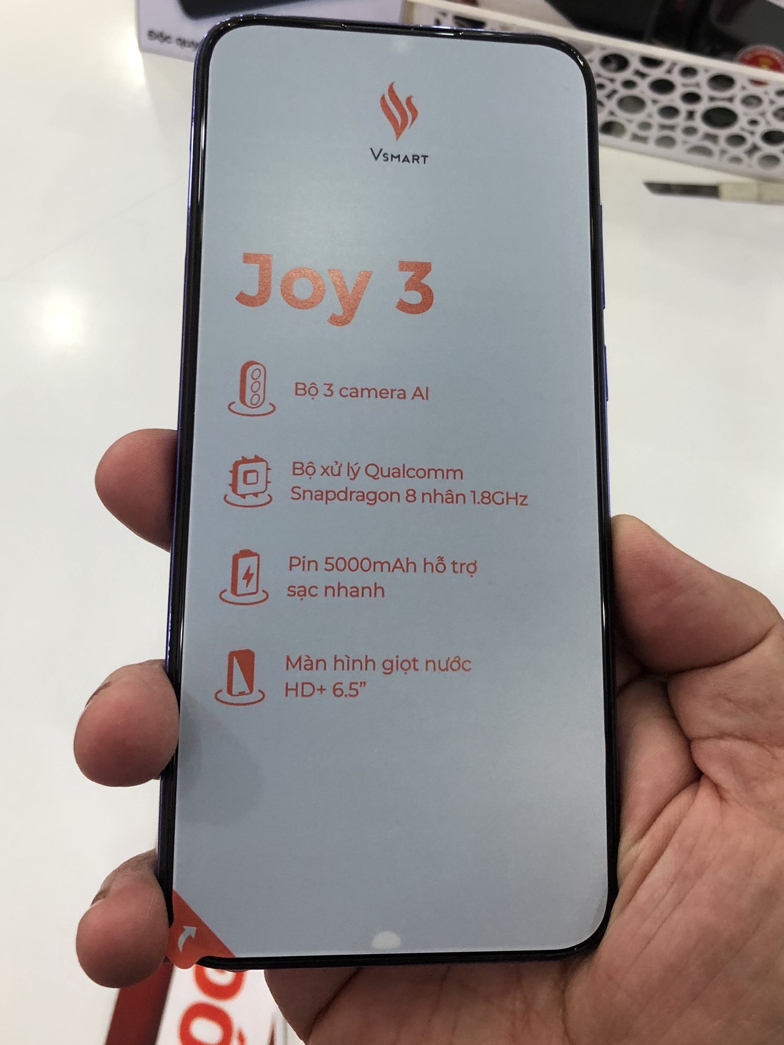 VSmart Joy 3 Smartphone